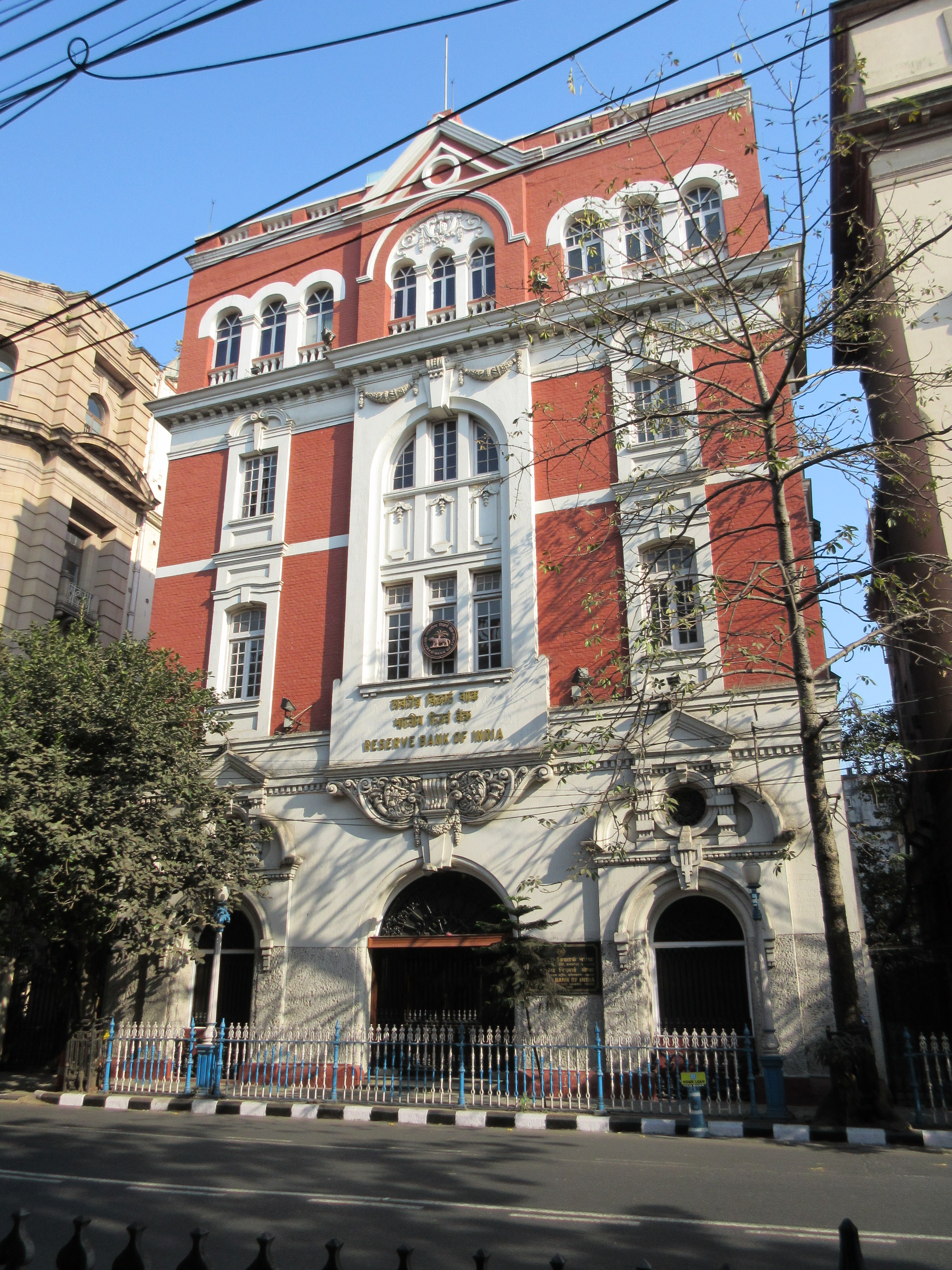 The Zonal Training Centre, or ZTC as it is commonly known, is the training centre of Reserve Bank of India (RBI) for officers and staff. Address- 8 Council Road, Near GPO, B B D Bagh, Kolkata, West Bengal 700001.